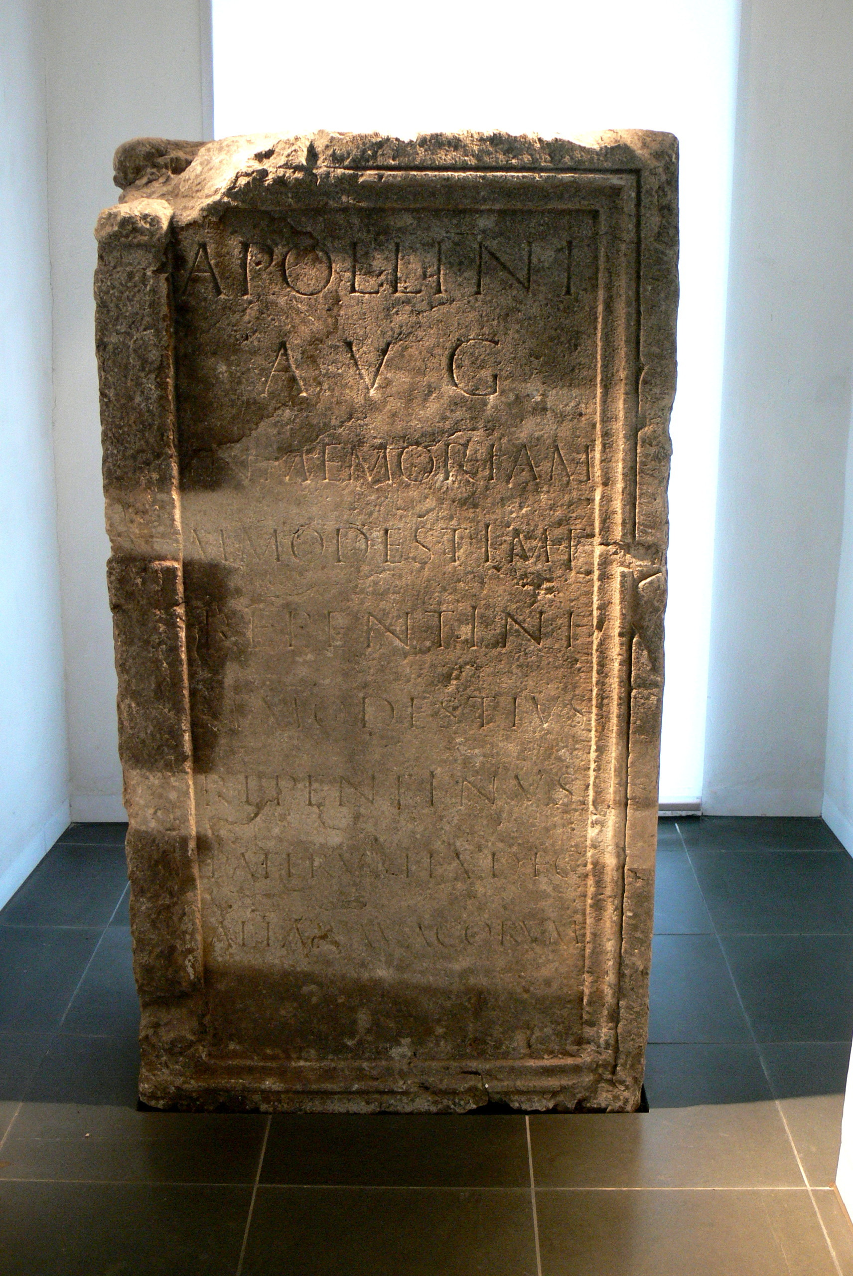 Wels ( Upper Austria ). City Museum Minoritenkloster - Roman department: Monument ( 2nd century AD ) for Apollon Augustus, dedicated by Marcus Modestius, son of Marcus Modestius Repentinus, retired commander of the Ala I Aravacorum.